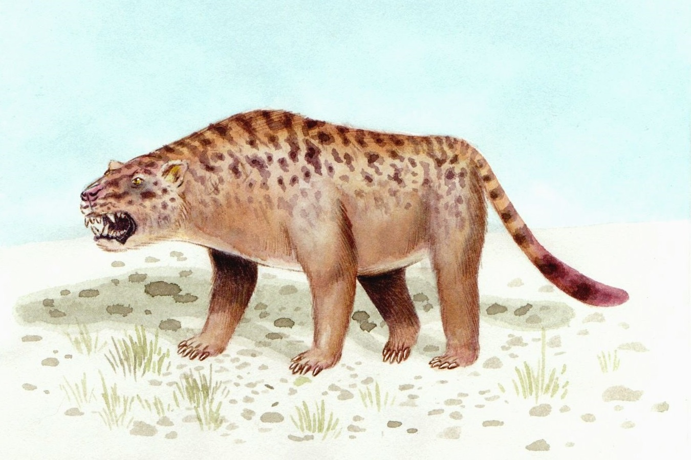 A recreation of the extinct mammal Sarkastodon